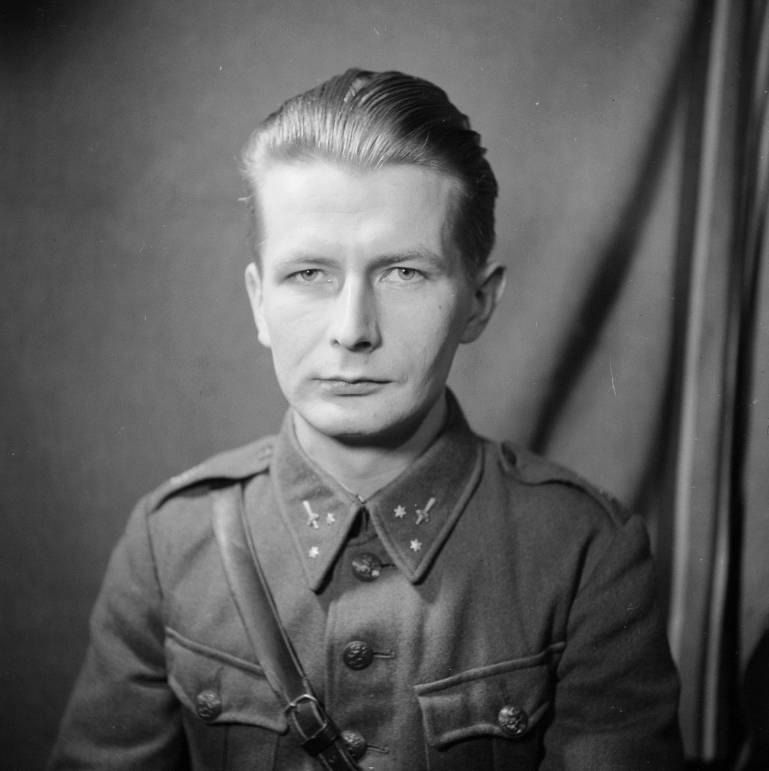 Photograph of the Finnish writer Olavi Siippainen (1915–1963).